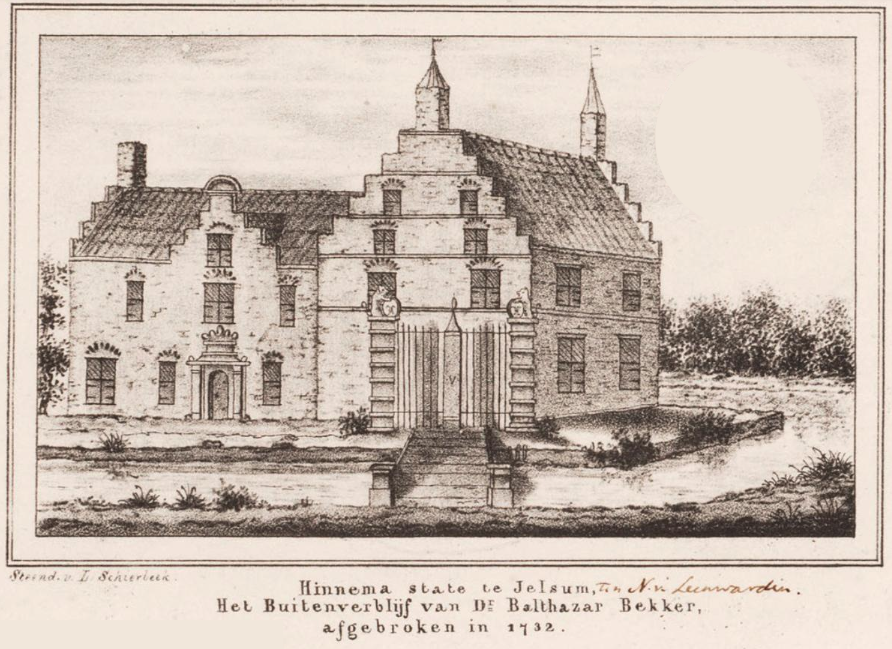 Hinnemastate, before demolition in 1732, publiced between 1823-1874